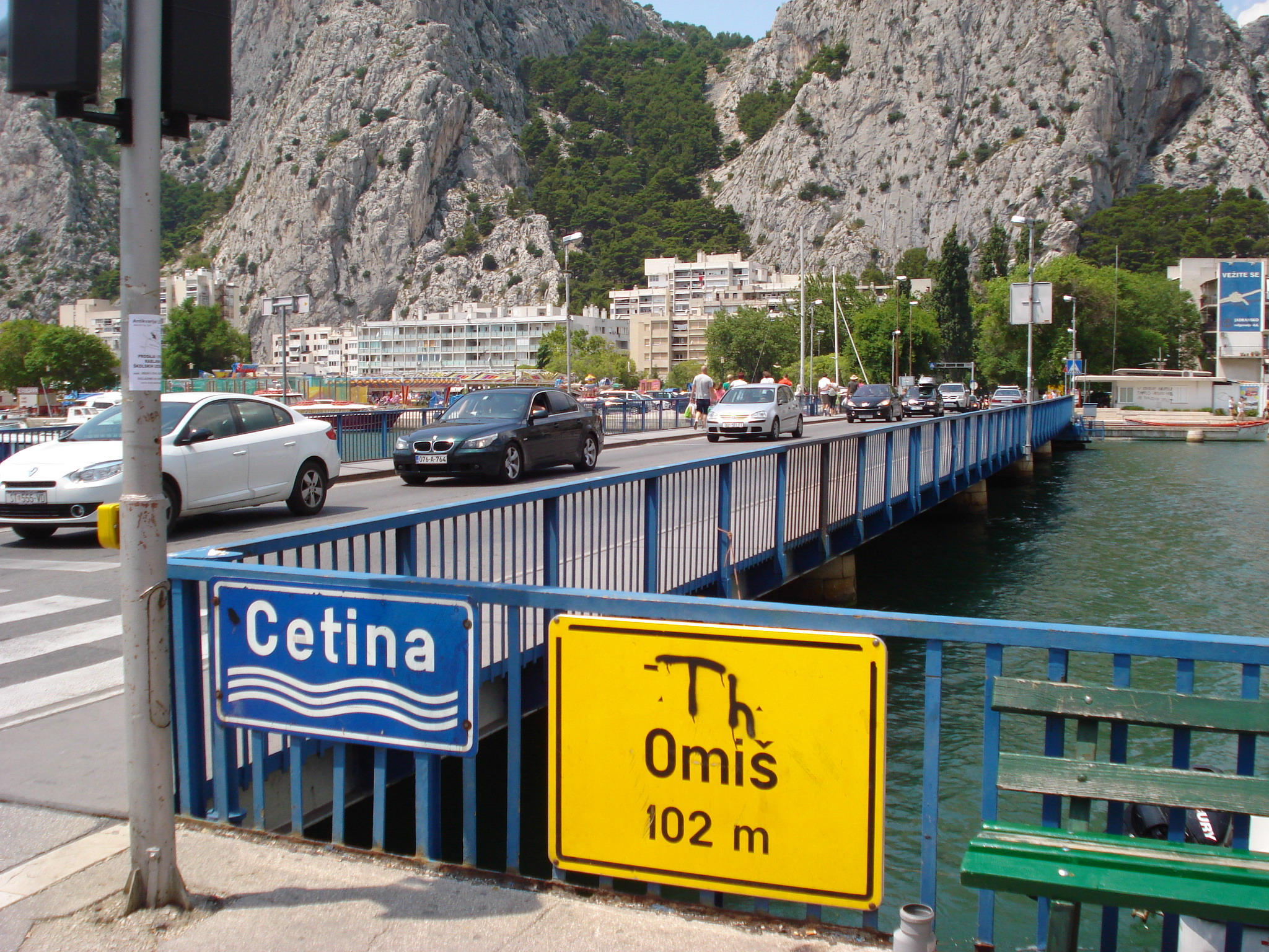 Road bridge over the Cetina river in Omiš, Croatia - river signsHrvatski: Cestovni most na rijeci Cetini u Omišu, Hrvatska - ploče s natpisom